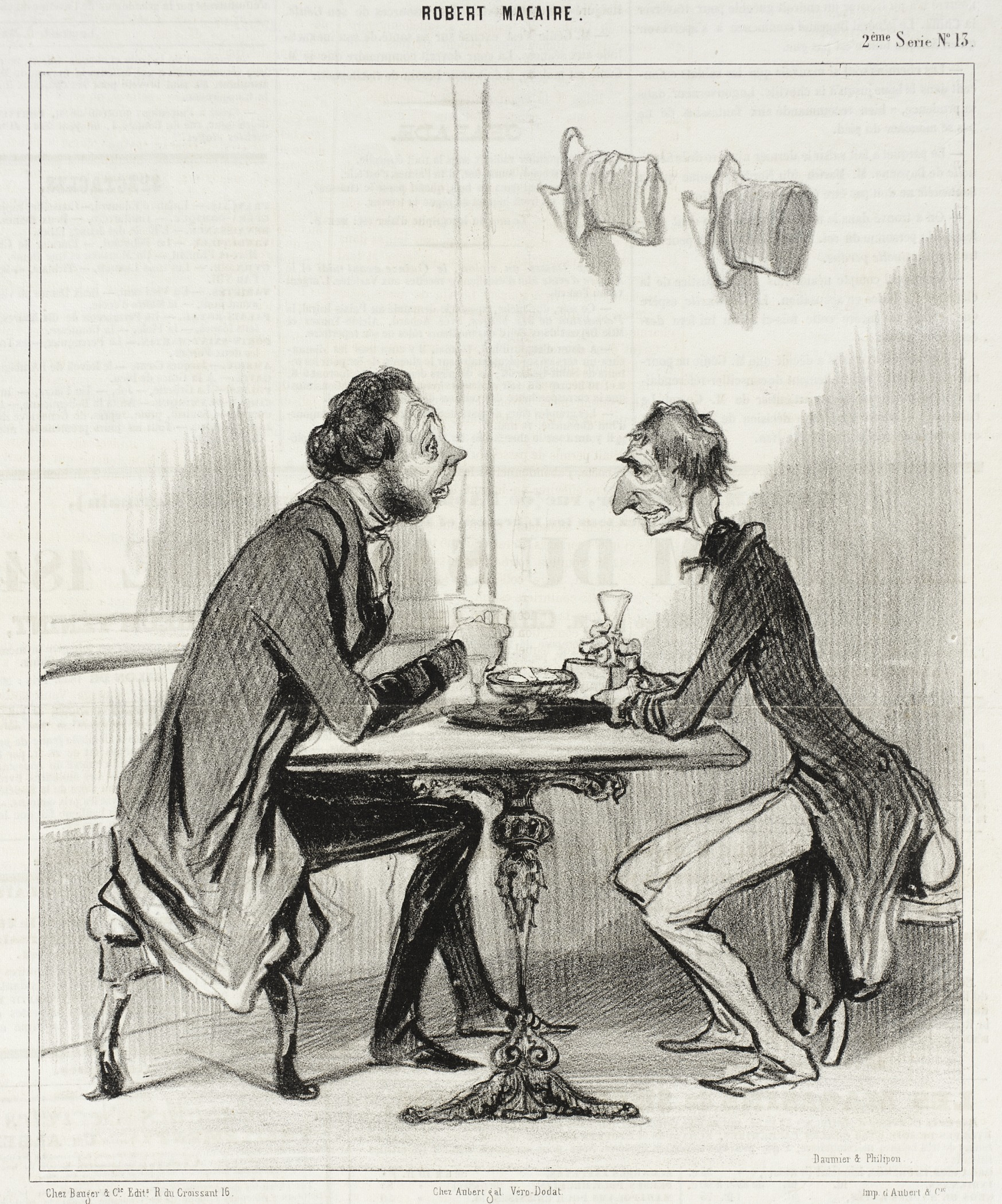 France, 1841 Series: Robert Macaire Periodical: Le Charivari, 16 May 1841 Prints; lithographs Lithograph Sheet: 9 5/16 x 7 13/16 in. (23.65 x 19.84 cm) Gift of Mrs. Florence Victor from The David and Florence Victor Collection (M.91.82.139) Prints and Drawings